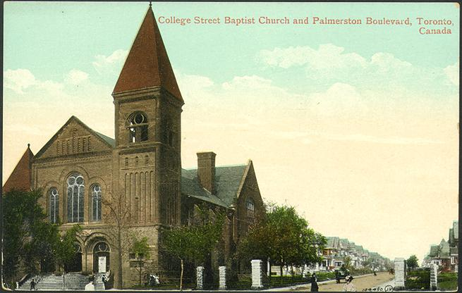 Postcard of College Street Baptist Church and Palmerston Boulevard, Toronto, Canada. From 1970 and until recently, the building was used as the Portuguese Seventh-day Adventist Church, a church serving the Portuguese community of Toronto.